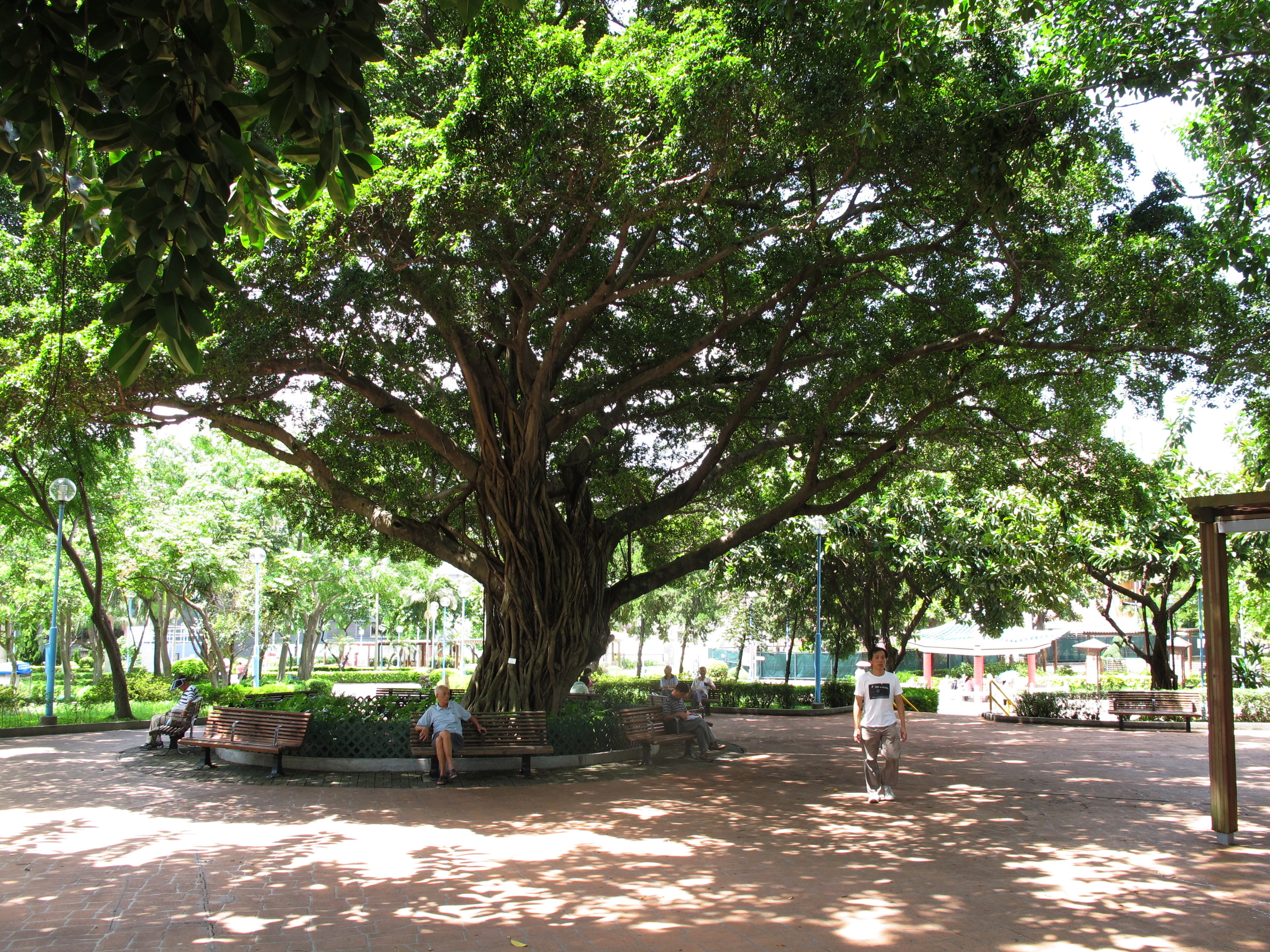 Carpenter Road Park 賈炳達道公園